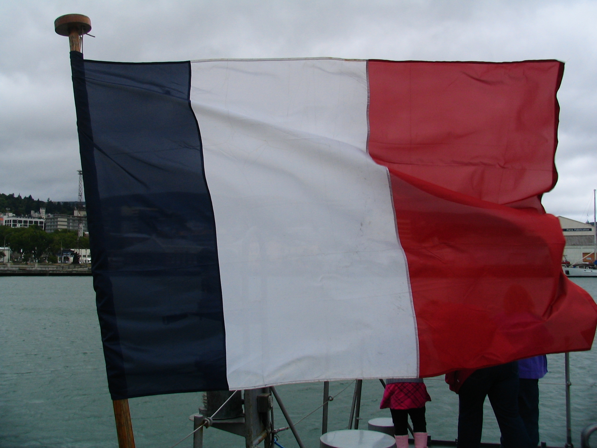 The flag of France flying from the stern of the French Navy vessel La Moqueuse, during an open day while docked in Dunedin, New Zealand.